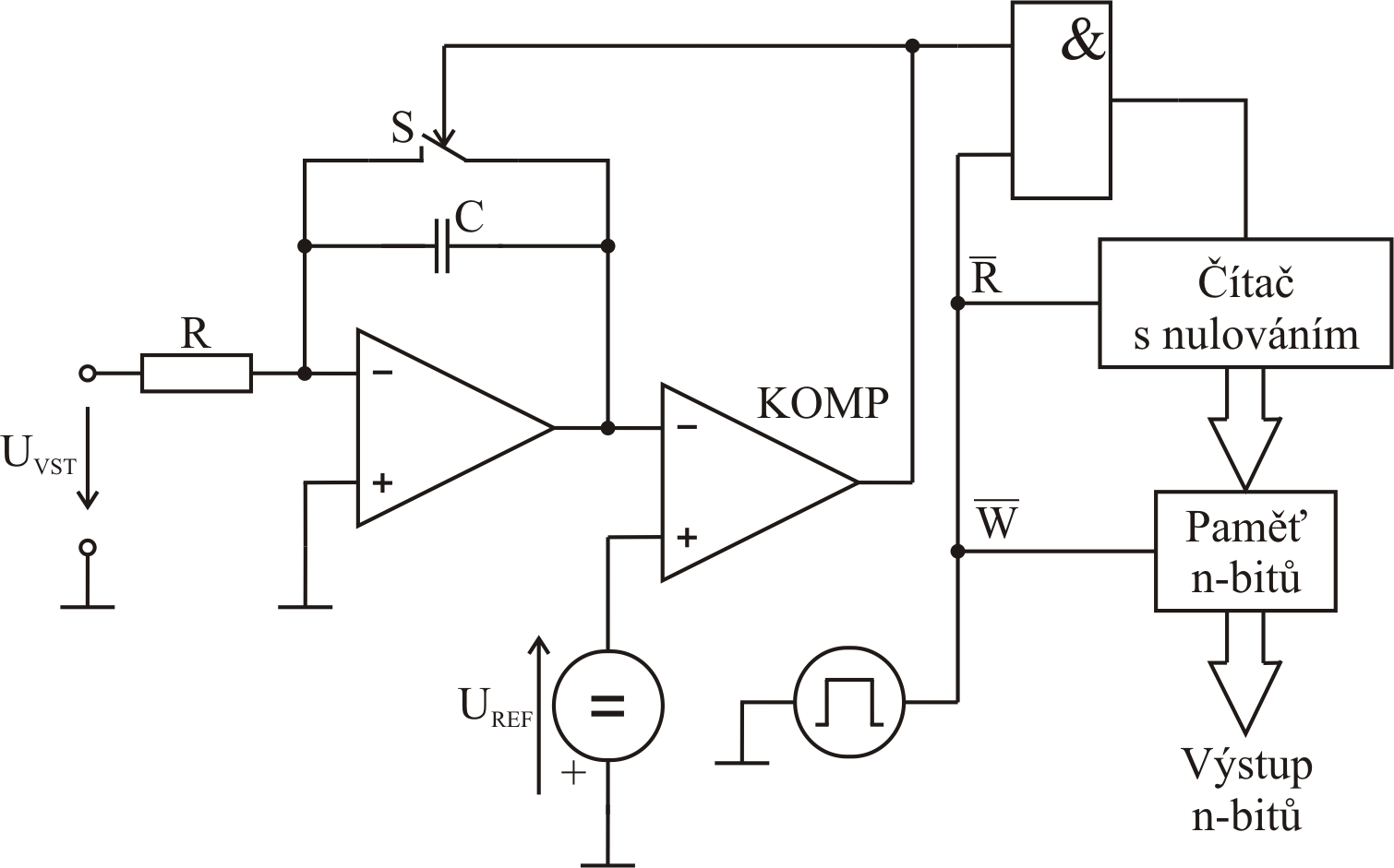 ADC